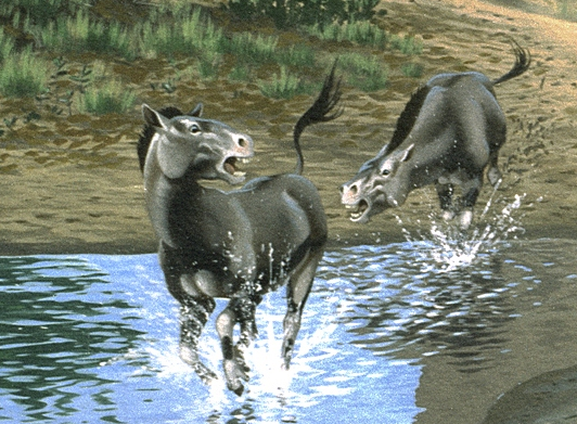 Crop of file in filename